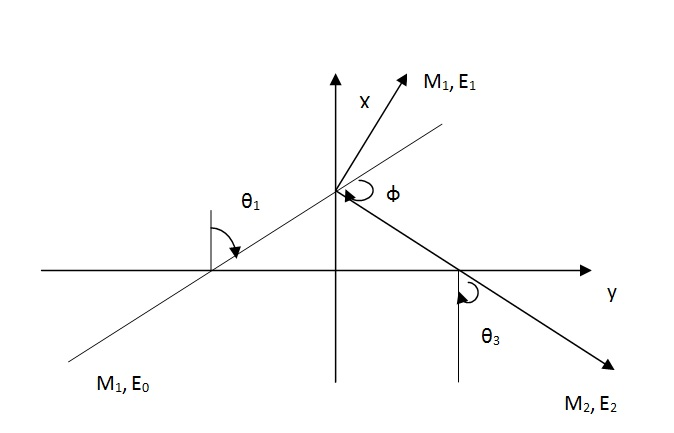 Planar representation